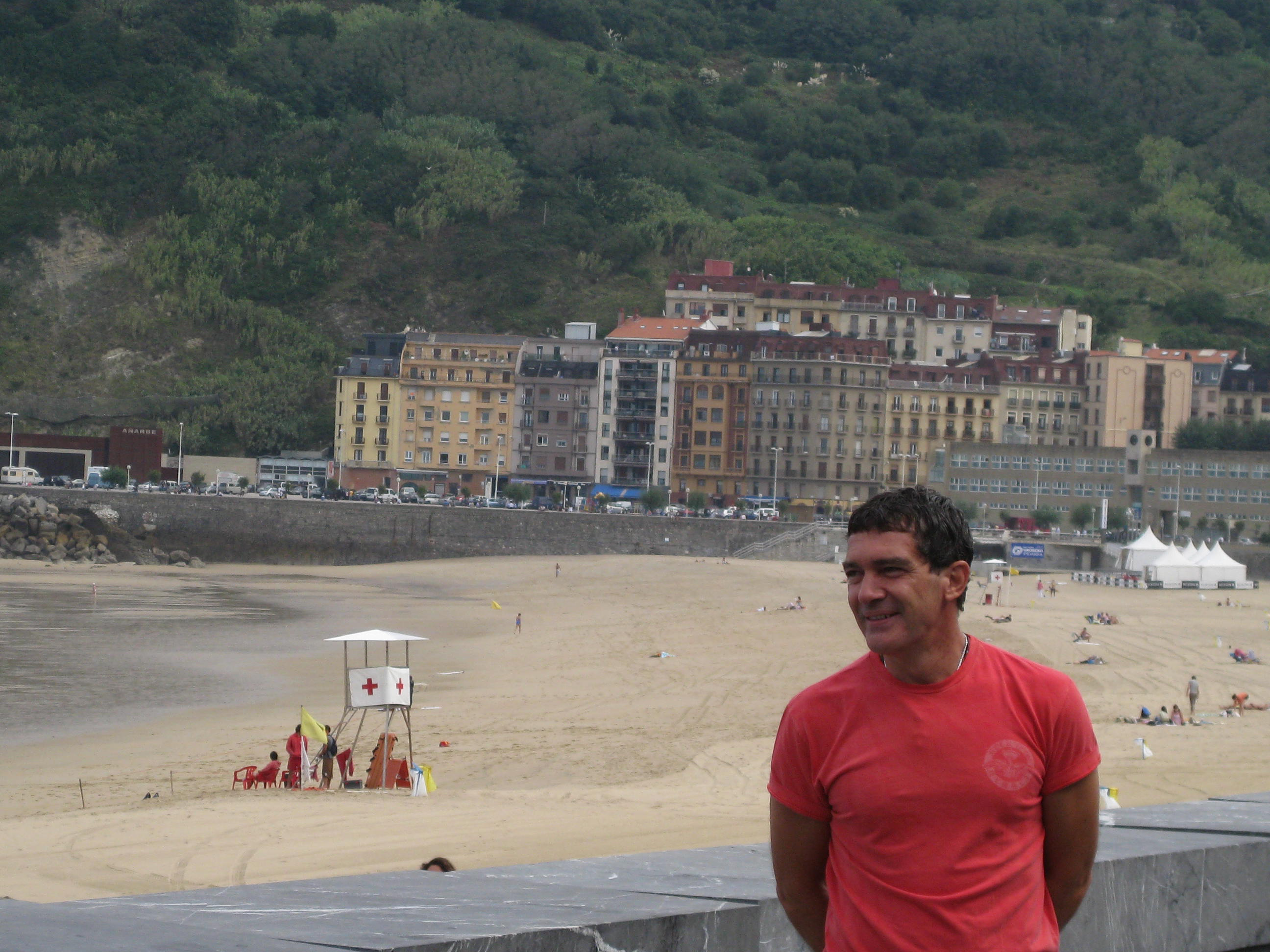 Antonio Banderas presenting "The other man" (Richard Eyre) at the Filmfestival in San Sebastian 2009